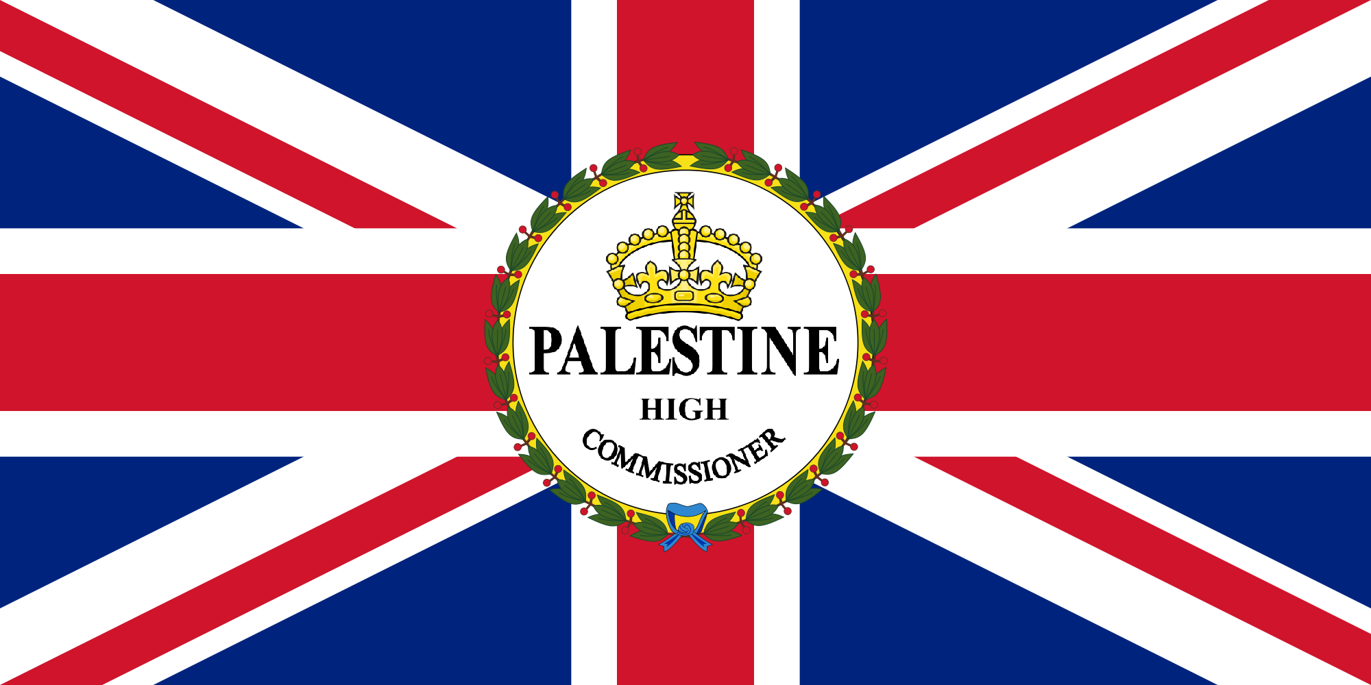 based on and